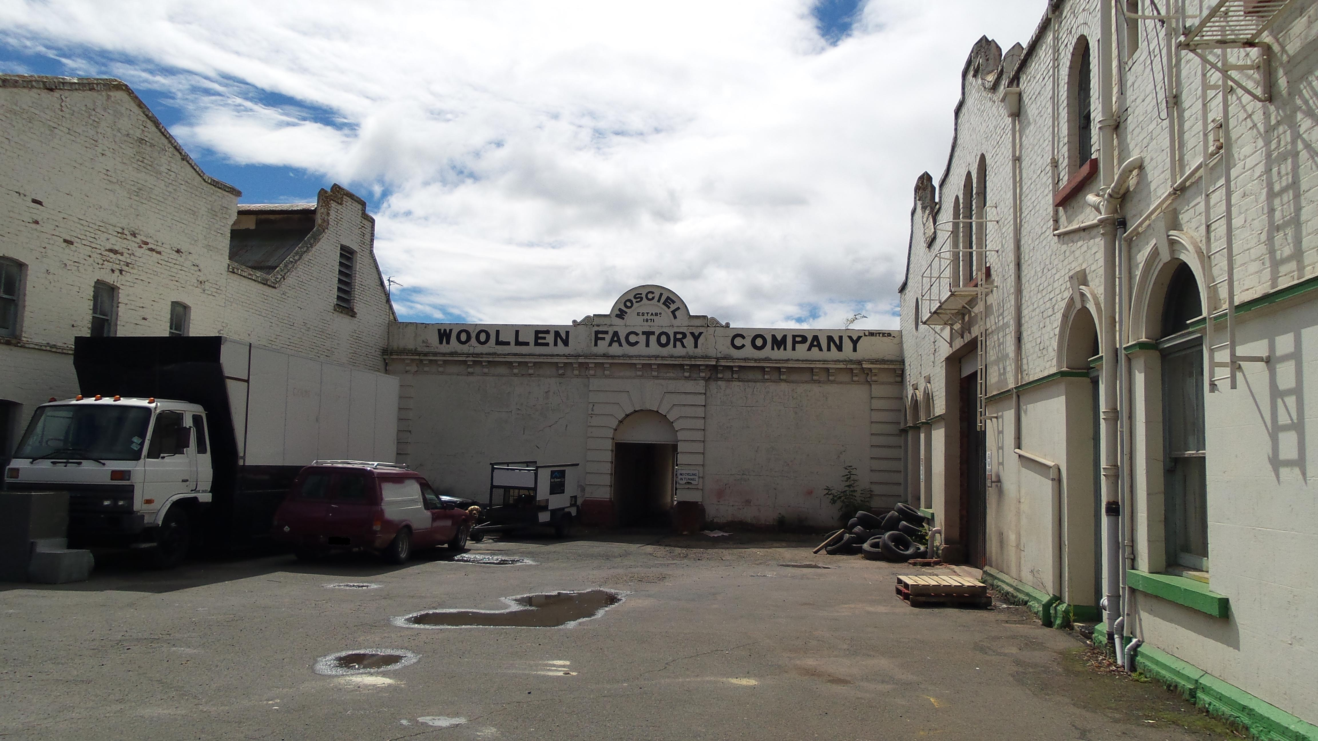 Mosgiel woollen mill owned by the Mosgiel Woollen Factory Company, in Mosgiel, Otago, New Zealand.